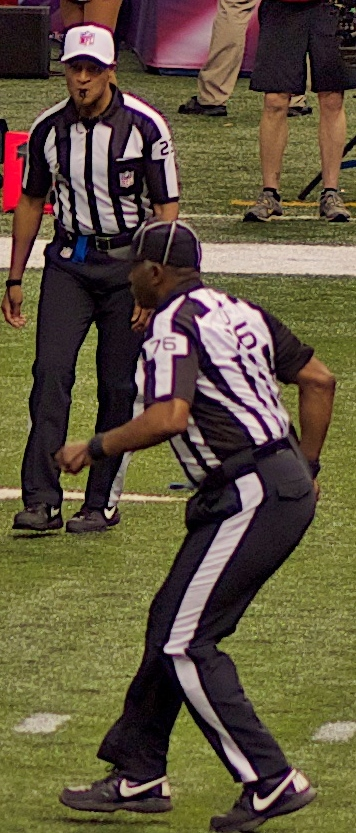 Referee Jerome Boger and another official work Super Bowl XLVII.